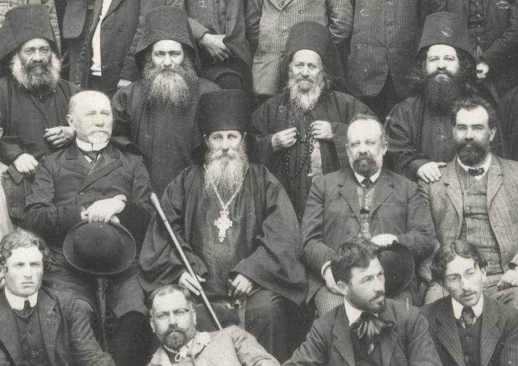 Historical Documentary Photograph from the collection of Sandjakoski's family